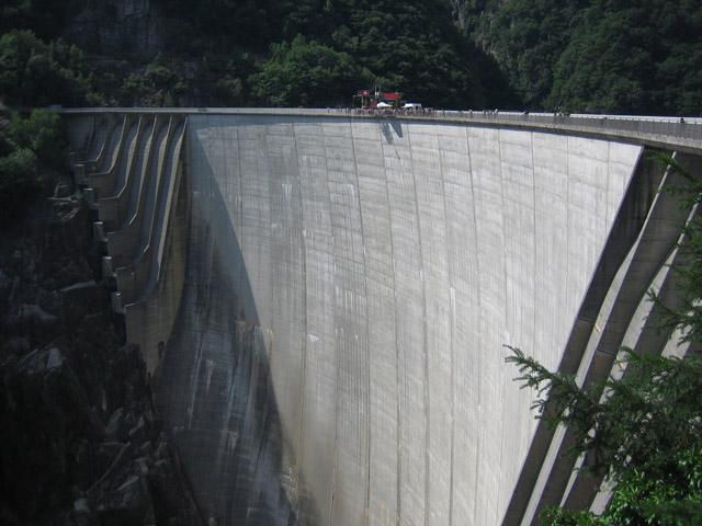 The bungee tower atop the Verzasca Dam is seen near the top of the photo.